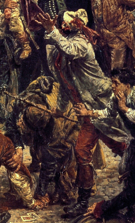 Kazimierz Konopka from Matejko's painting (File:Konstytucja 3 Maja.jpg)